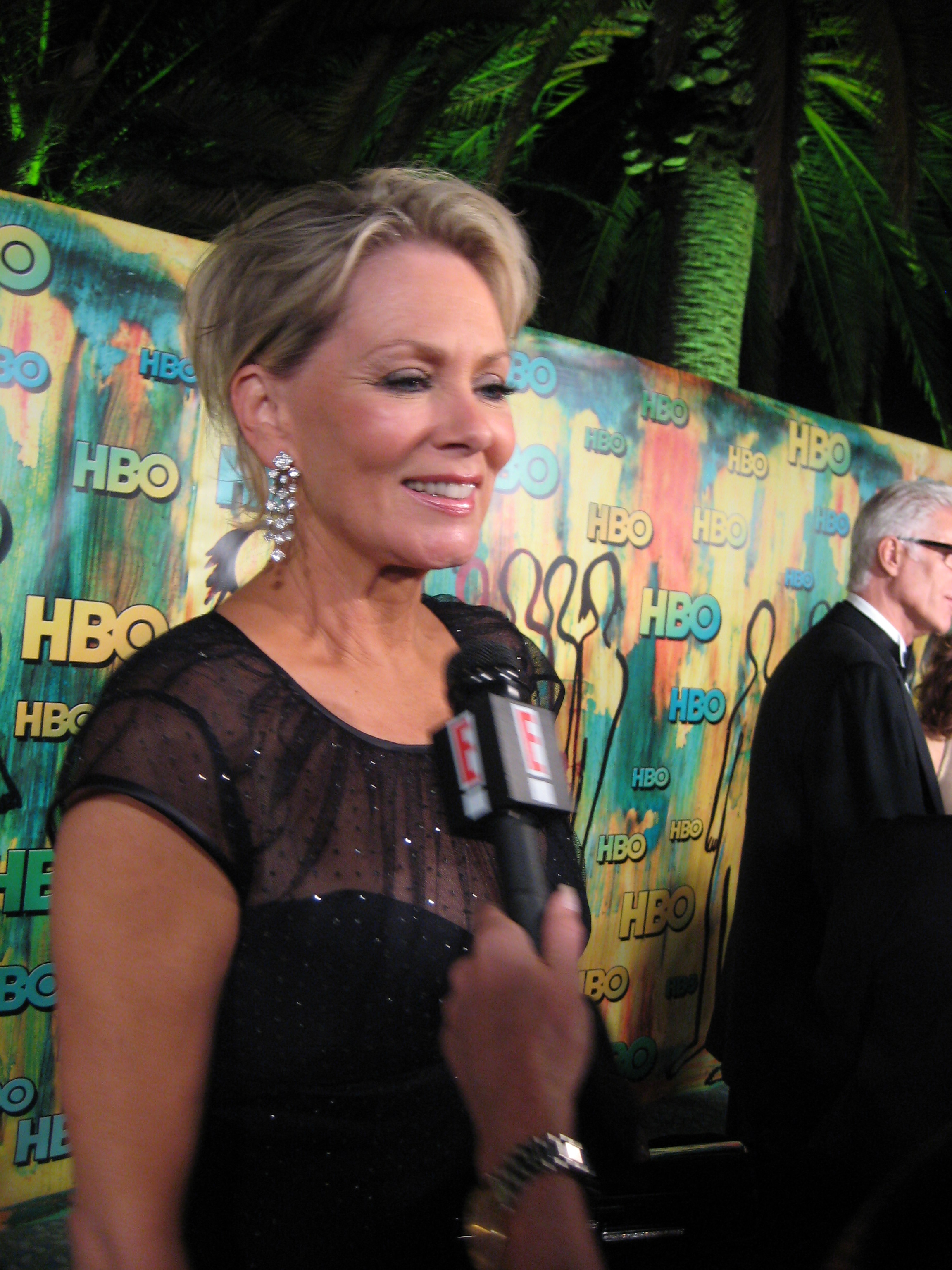 Actress Jean Smart at the HBO Post-Emmys Party, Pacific Design Center, Sept. 21, 2008